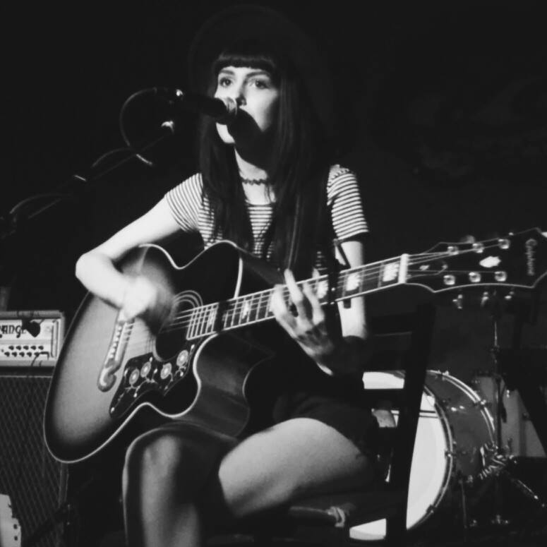 Storm Calysta, San Antonio 2014